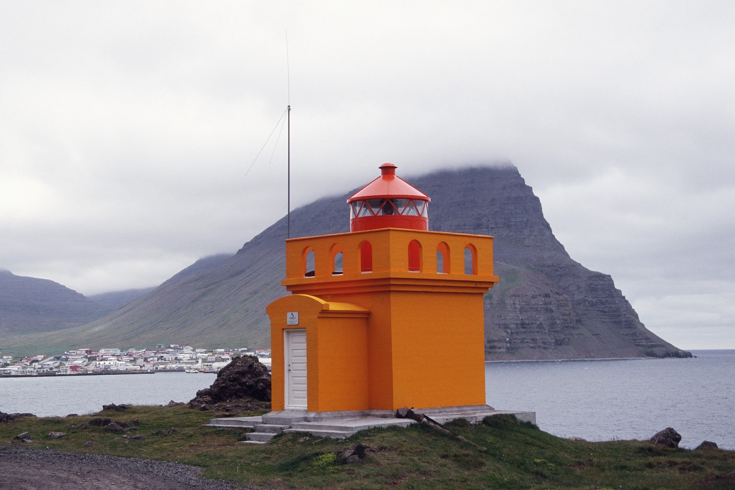 Description: Lighthouse at Bolungarvik, Iceland own image, taken July 11, 2003 Photographer: Herbert Ortner, Vienna, Austria